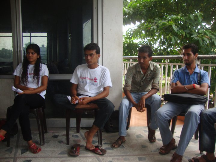 4th meeting of Youth For Blood clicked on 30 july 2011 at FNJ building Morang